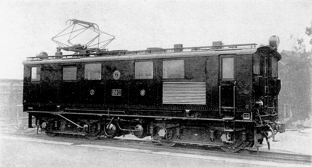 Odawara Express Railway Type 201 Electric Locomotive No.201